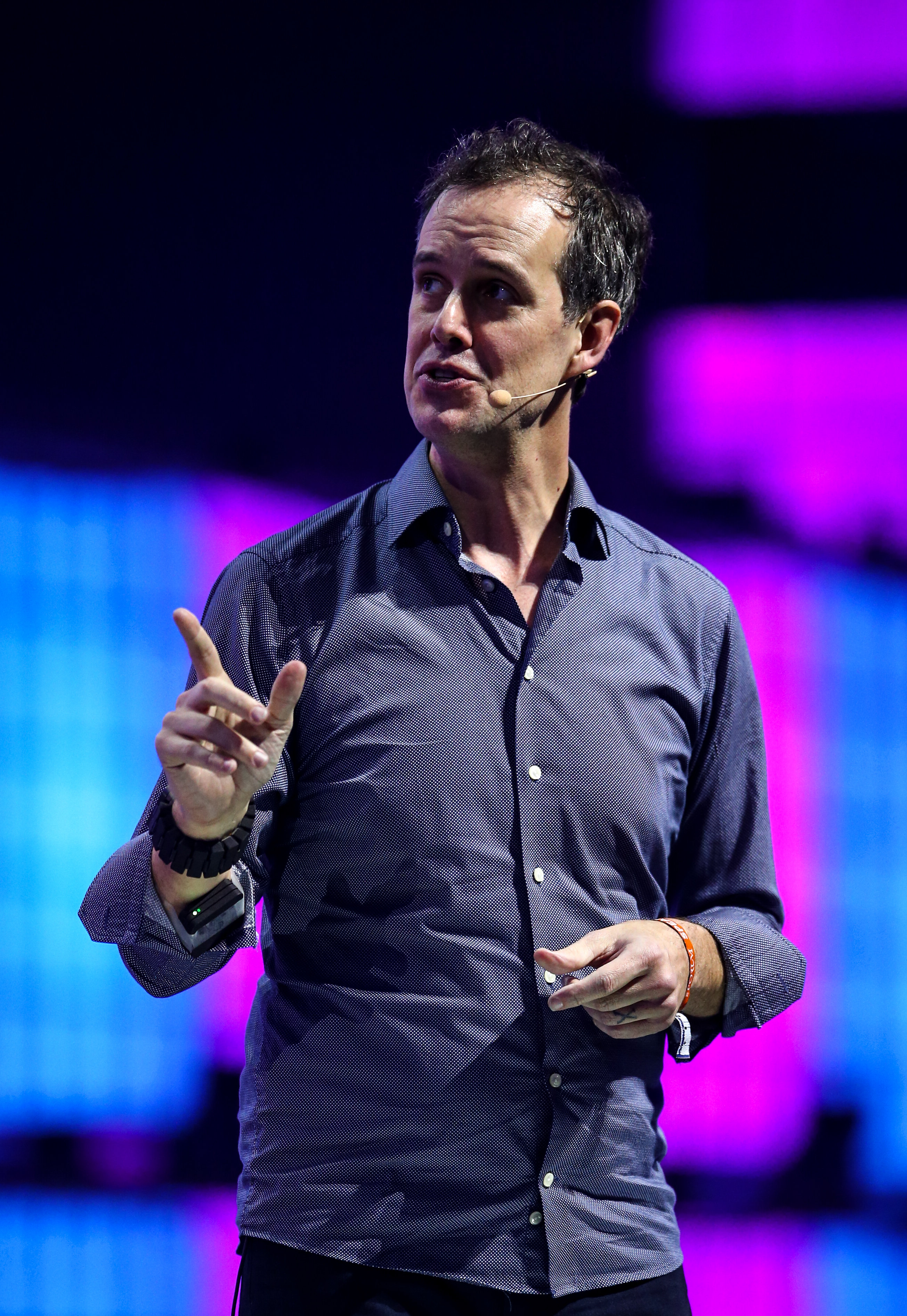 6 November 2019; Thomas Reardon, Co-founder & CEO, CTRL-Labs, on Centre Stage during day two of Web Summit 2019 at the Altice Arena in Lisbon, Portugal. Photo by Vaughn Ridley/Web Summit via Sportsfile